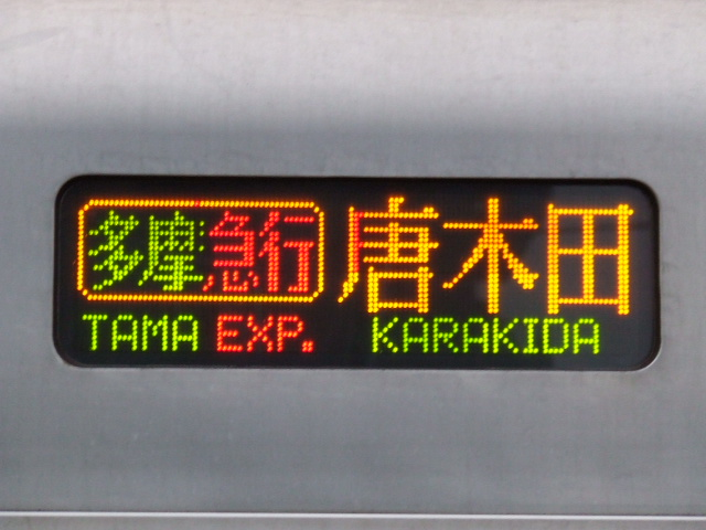 Exterior destination indicator on the Tokyo Metro 06 series EMU